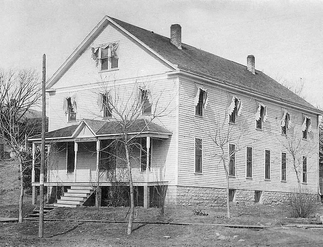 Arrington Hotel in Arrington, Kansas. The structure was built in 1901 and razed in 1953.